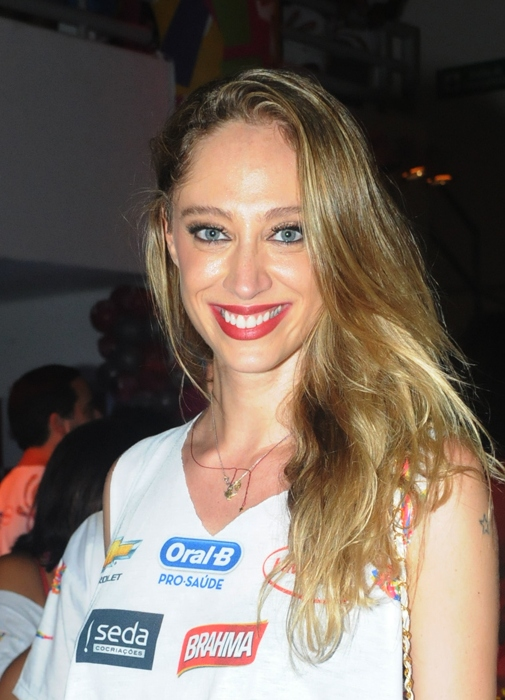 Brazilian top model Talita Pugliesi